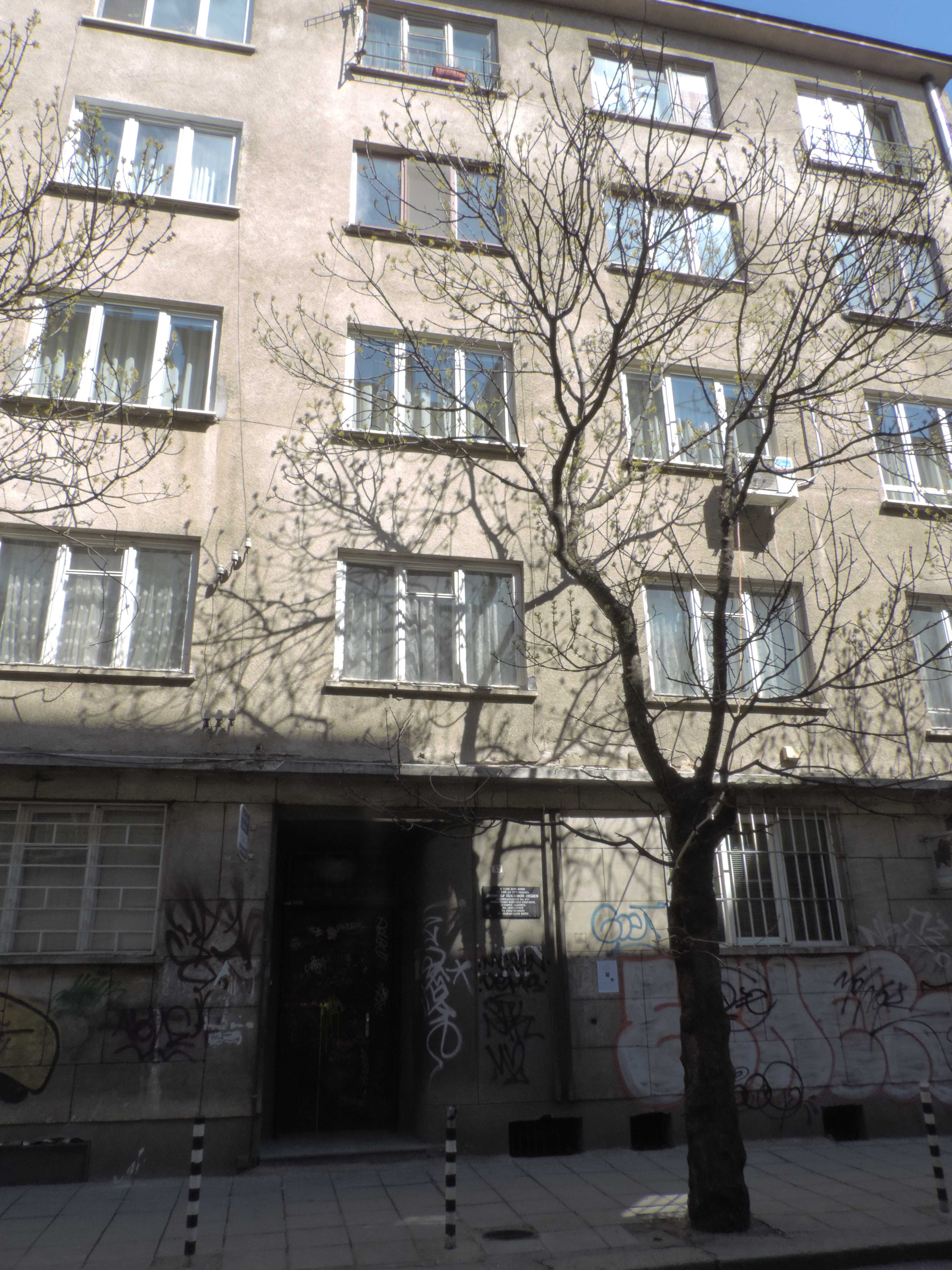 The house in which Dimitar Peshev lived from 1939 to 1973. The building is located on address 47 "Neofit Rilski" Str., Sofia, Bulgaria.